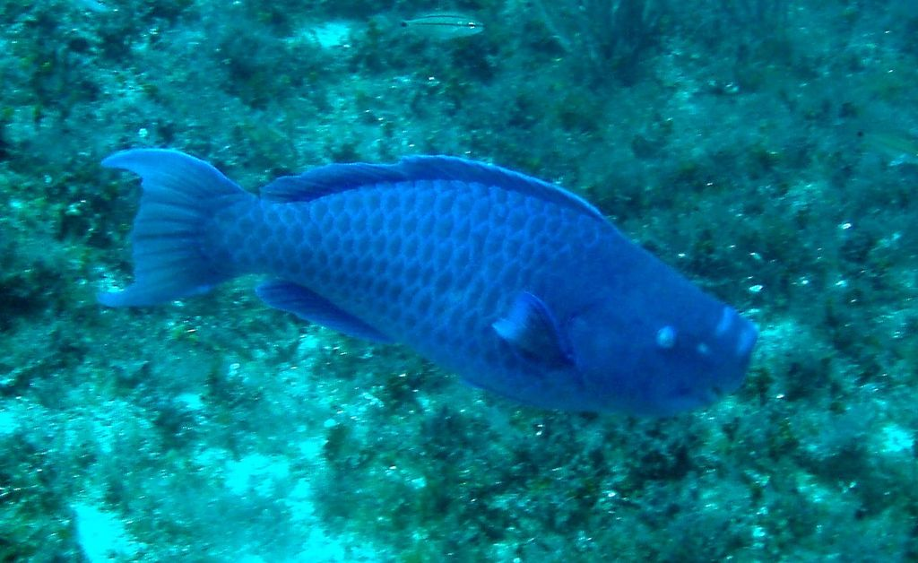 Scarus coeruleus in Madagascar Reef, Campeche Bank, Mexico